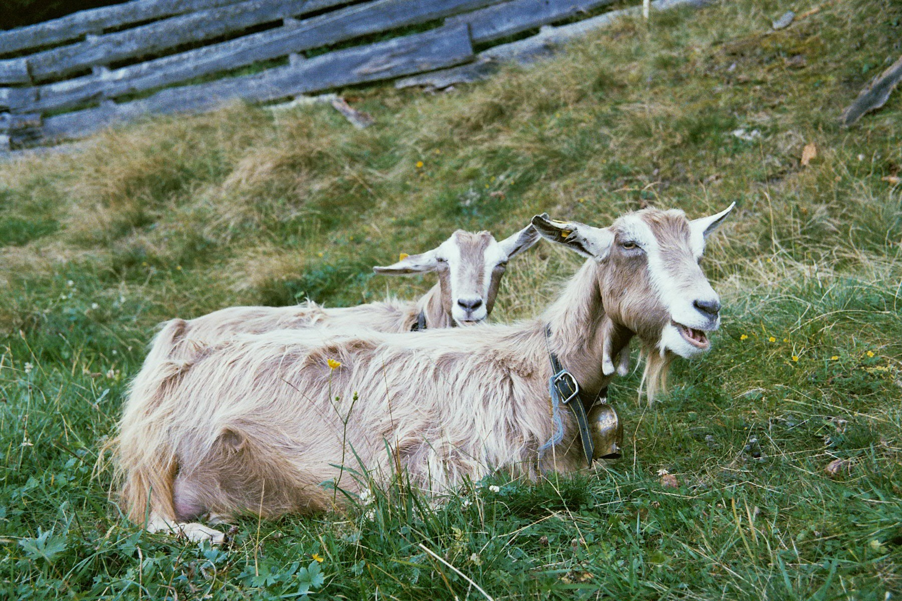 Toggenburger beim Wiederkäuen